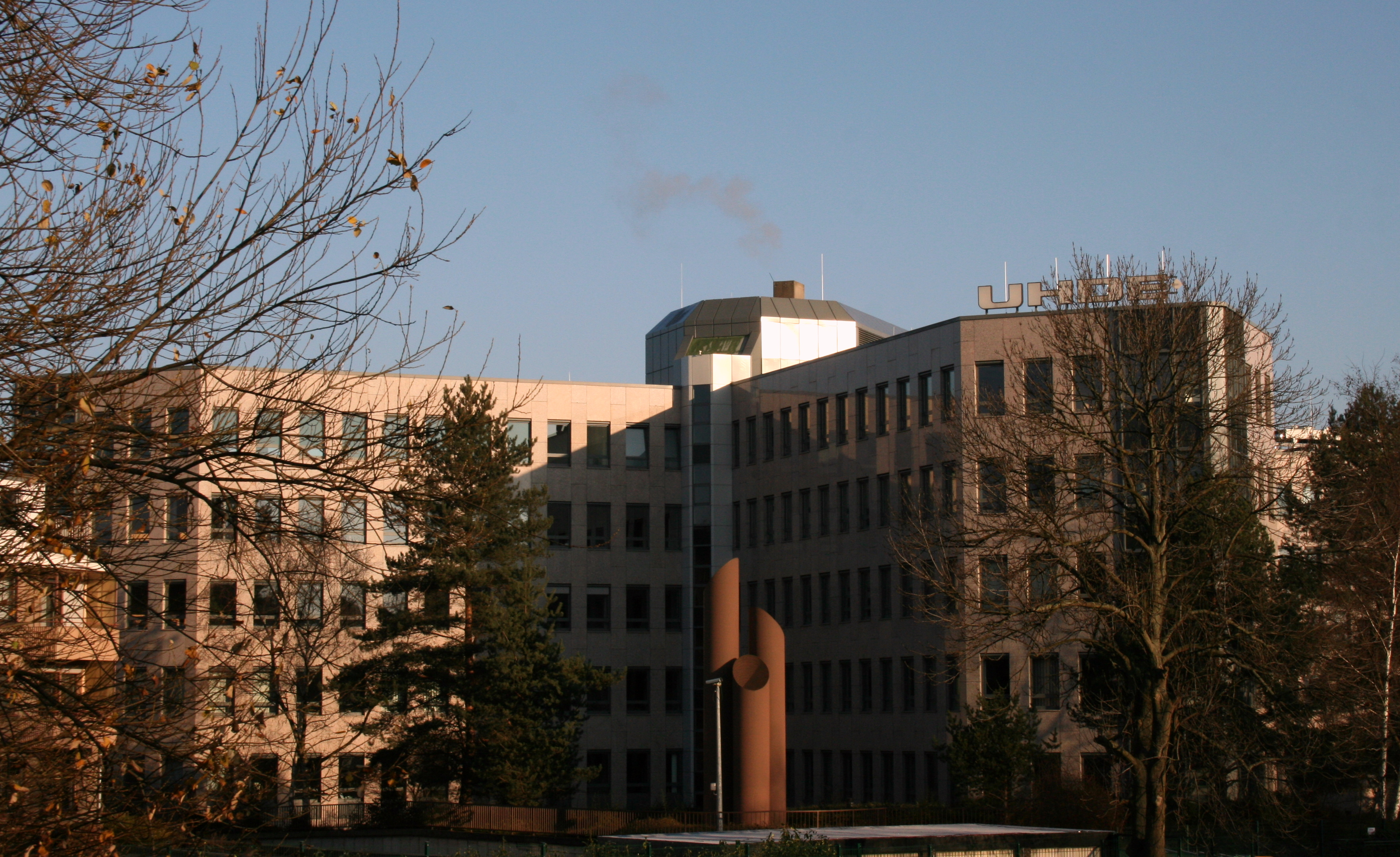 Uhde Gmbh Dortmund